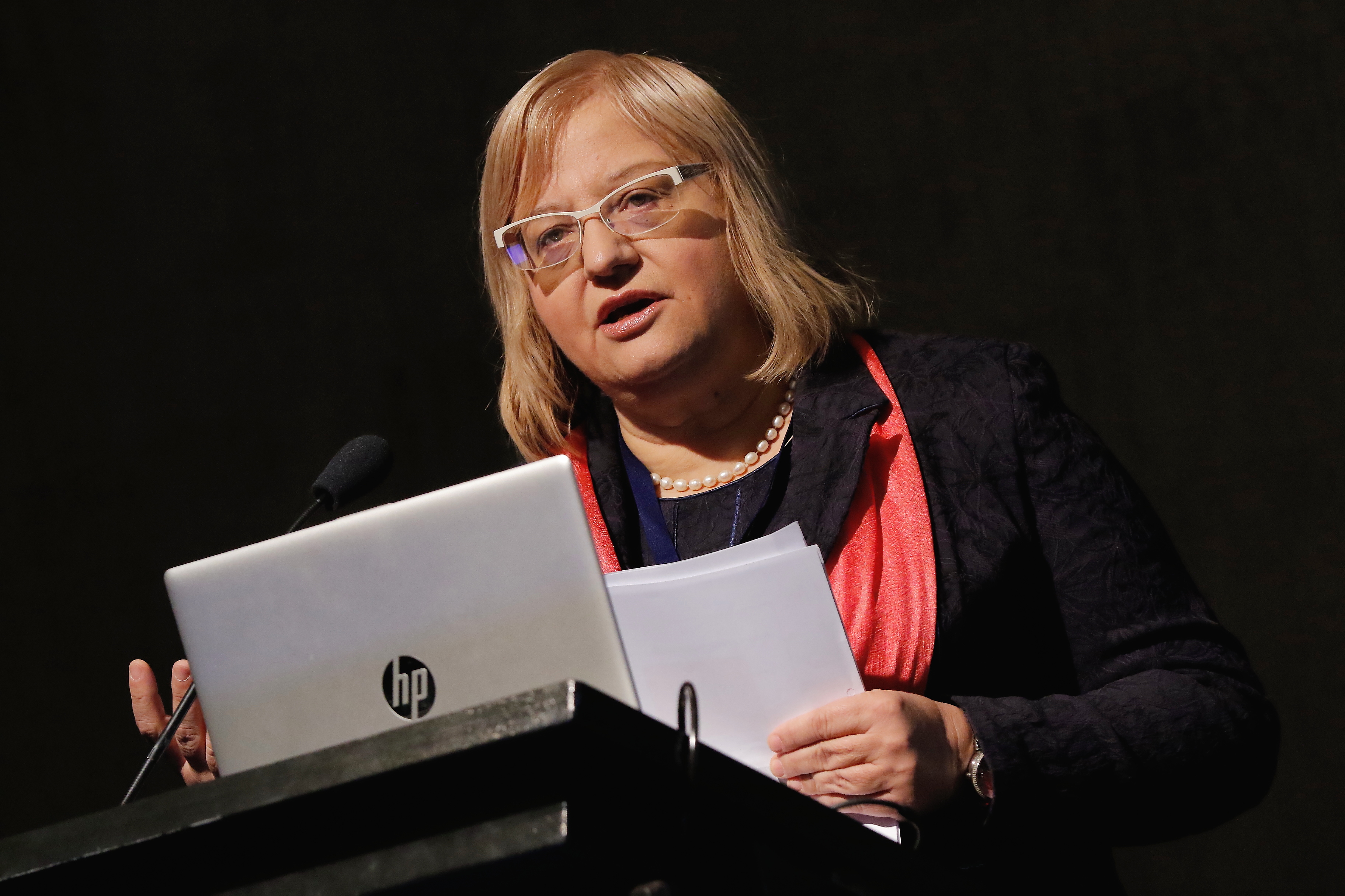 Eurostat.